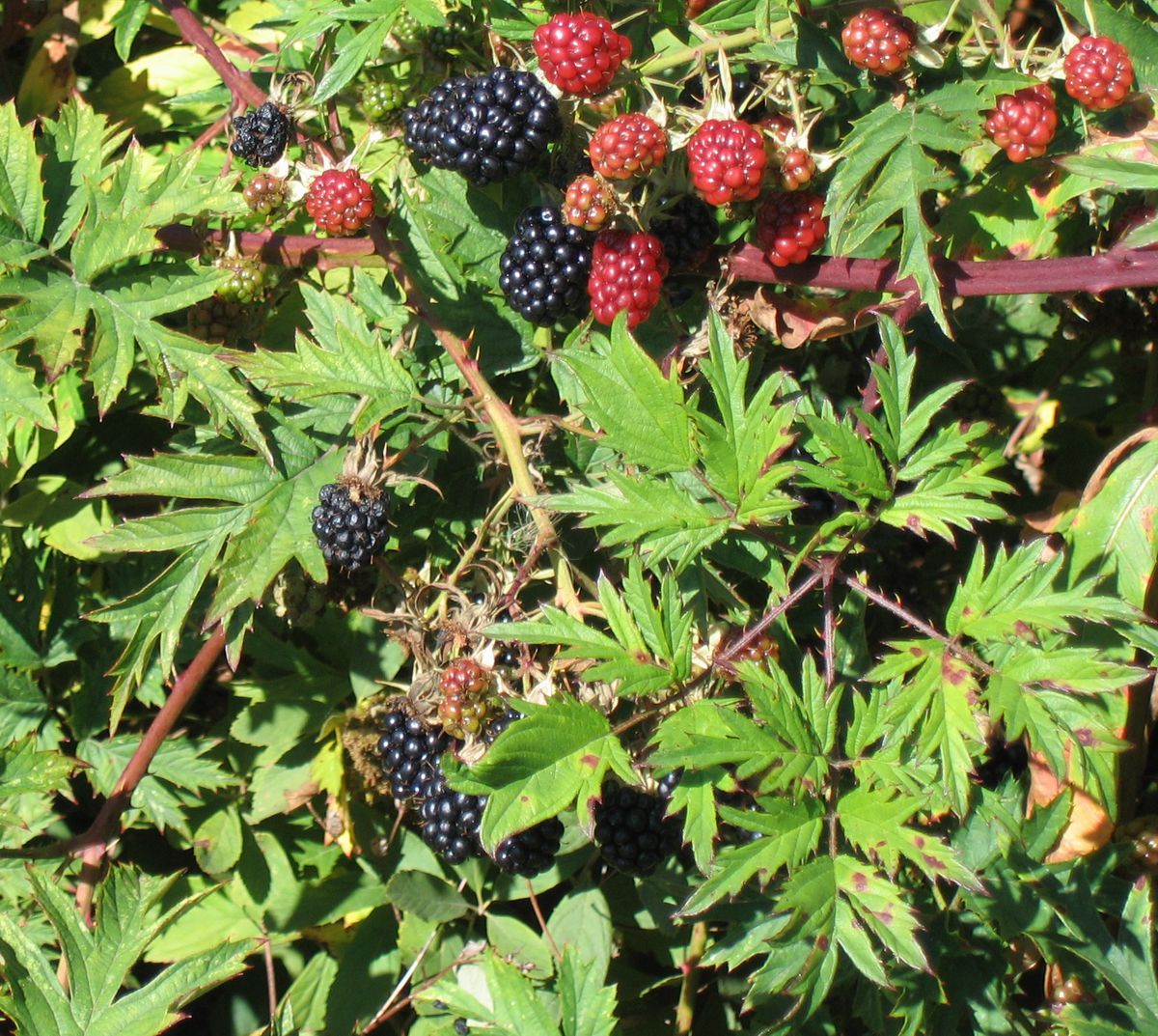 Rubus laciniatus Permission is granted to copy, distribute and/or modify this document under the terms of the GNU Free Documentation License, Version 1.2 or any later version published by the Free Software Foundation; with no Invariant Sections, no Front-Cover Texts, and no Back-Cover Texts. Subject to disclaimers. Subject to disclaimers.